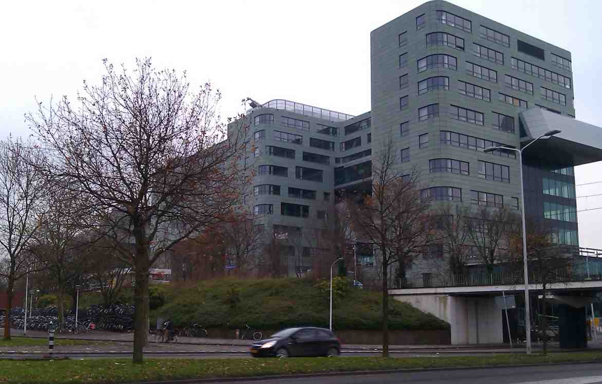 Railway station "Leiden Lammenschans" in Leiden, The Netherlands. In 2009 they started to build this huge office just next to the railway station, ever since it dominates the view, therefor I have created this picture. The actual railway station building is in the left half, half behind the tree, and the viaduct is for the rail in the direction "Leiden Centraal".